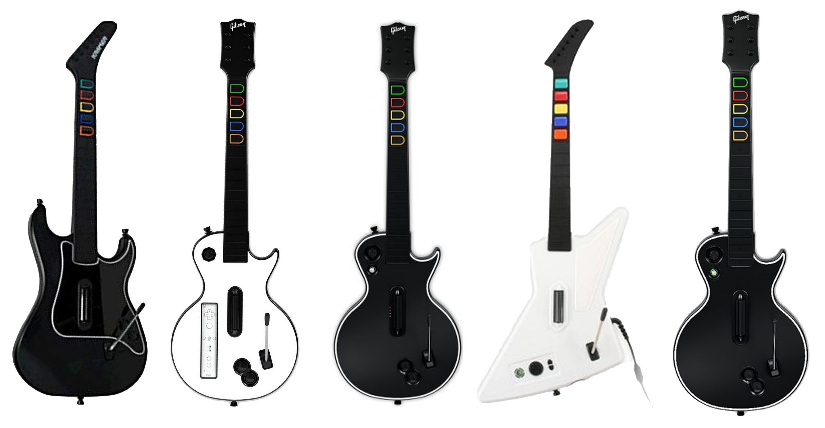 These are the guitars bundled with each version of the game Guitar Hero 3